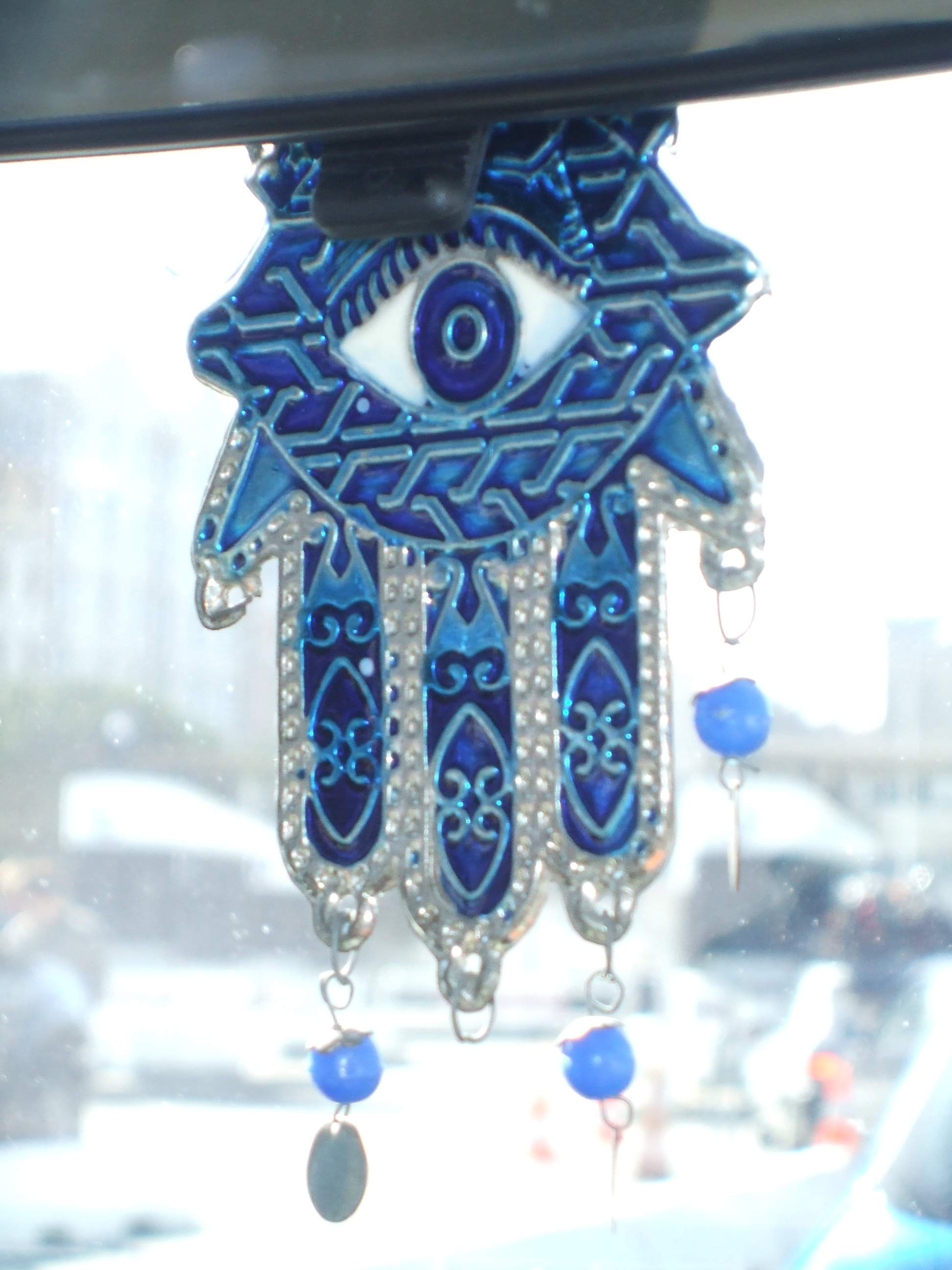 Tunisian Khamsa hanging inside a car